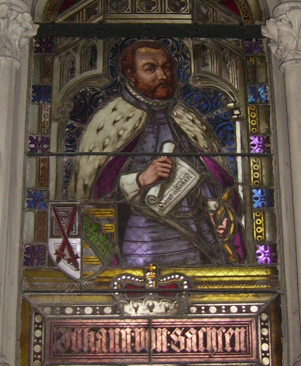 Description: Gedächtniskirche (Memorial Church) in Speyer, Germany Source: own photography Date: November 2005 Author: --Immanuel Giel 12:40, 7 November 2005 (UTC) Other versions: none